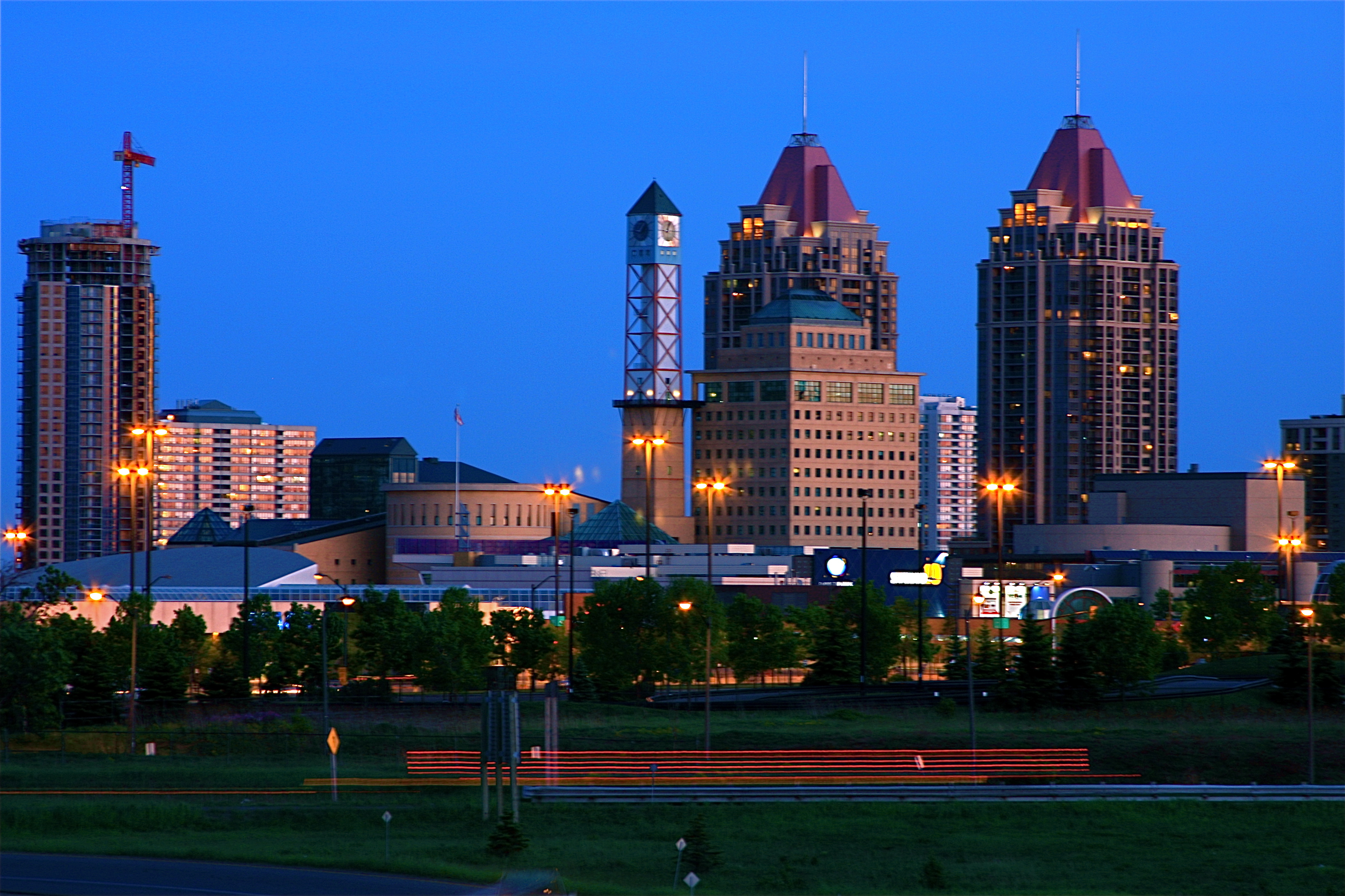 Downtown Mississauga as seen from Ontario's Highway 403.